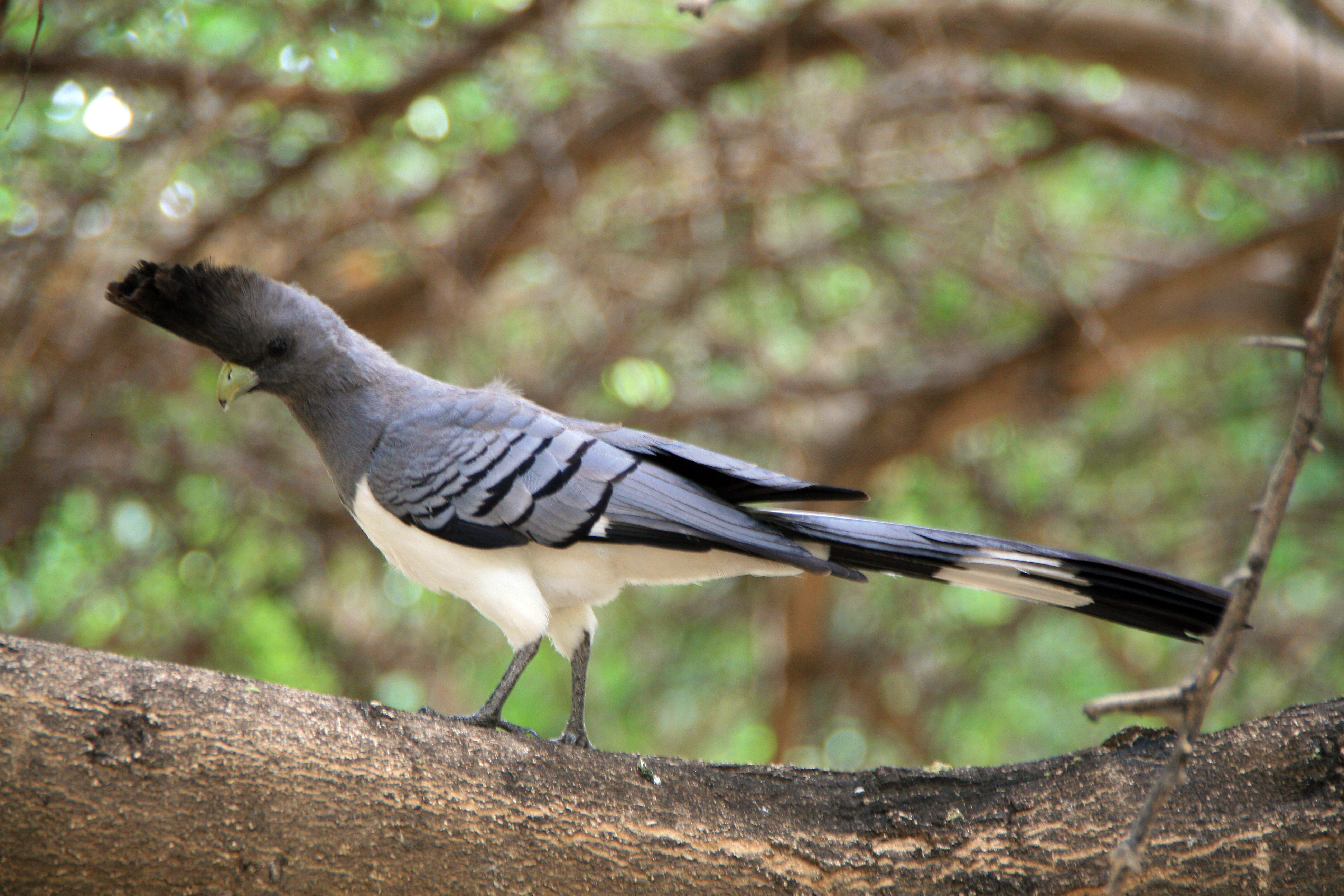 A female White-bellied Go-away-bird Corythaixoides leucogaster, Ngorongoro.